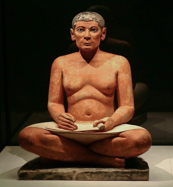 The so-called Seated Scribe. Painted limestone, eyes inlaid with rock crystal in copper, 4th of 5th dynasty of Egypt, 2600–2350 BC. From Saqqarah.